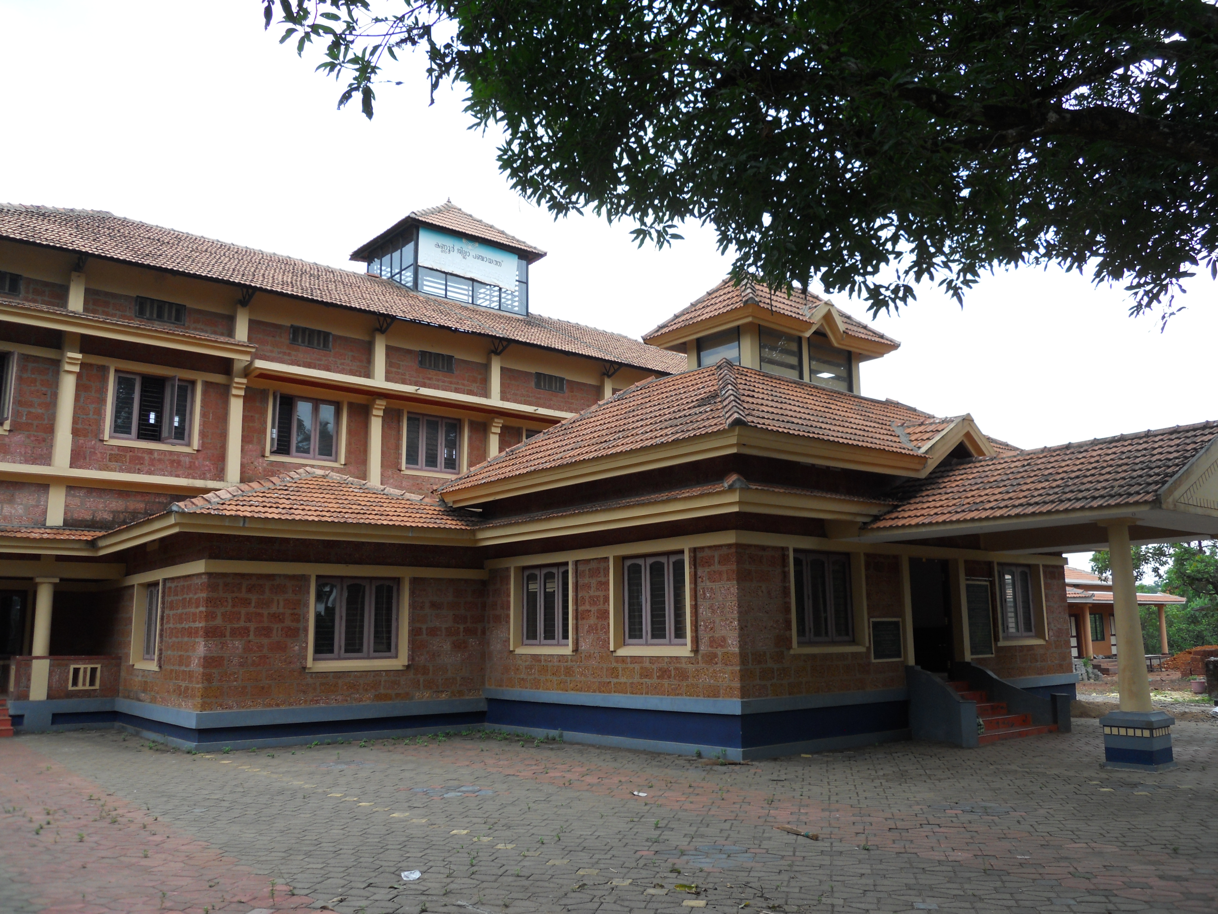 ITK Centre